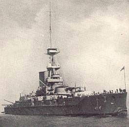 Photograph of British battleship HMS Erin